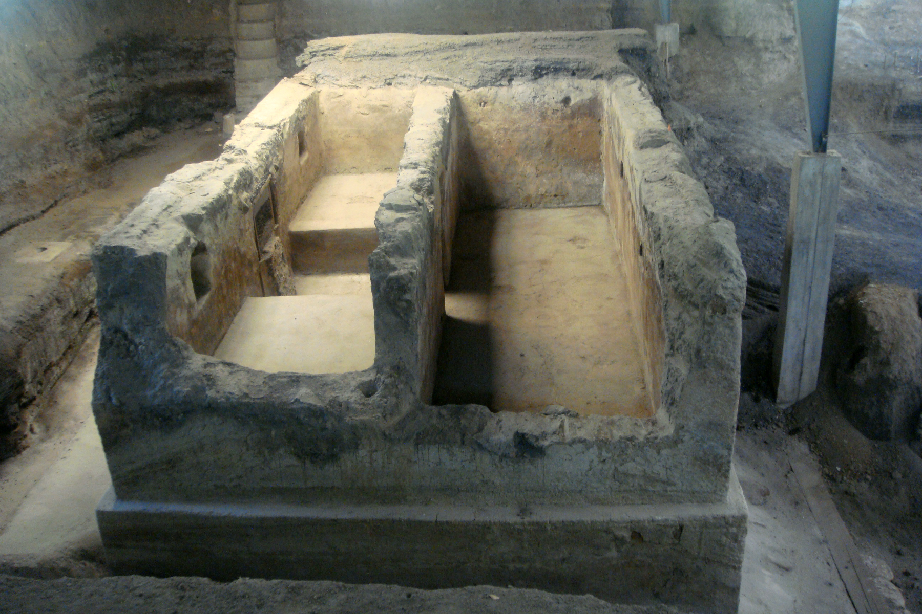 Remains of maya village of Joya de Cerén buried by volcano eruption around A.D. 600 (El Salvador). Structure 3 at Area 3.